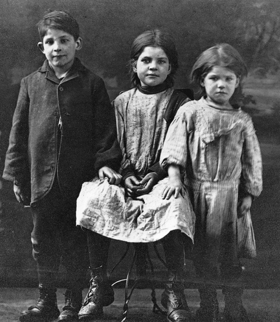 Photograph, Goose Village children, Montreal, QC, about 1910, Art Studio, Silver salts on paper mounted on card - Gelatin silver process - 12.7 x 17.8 cm